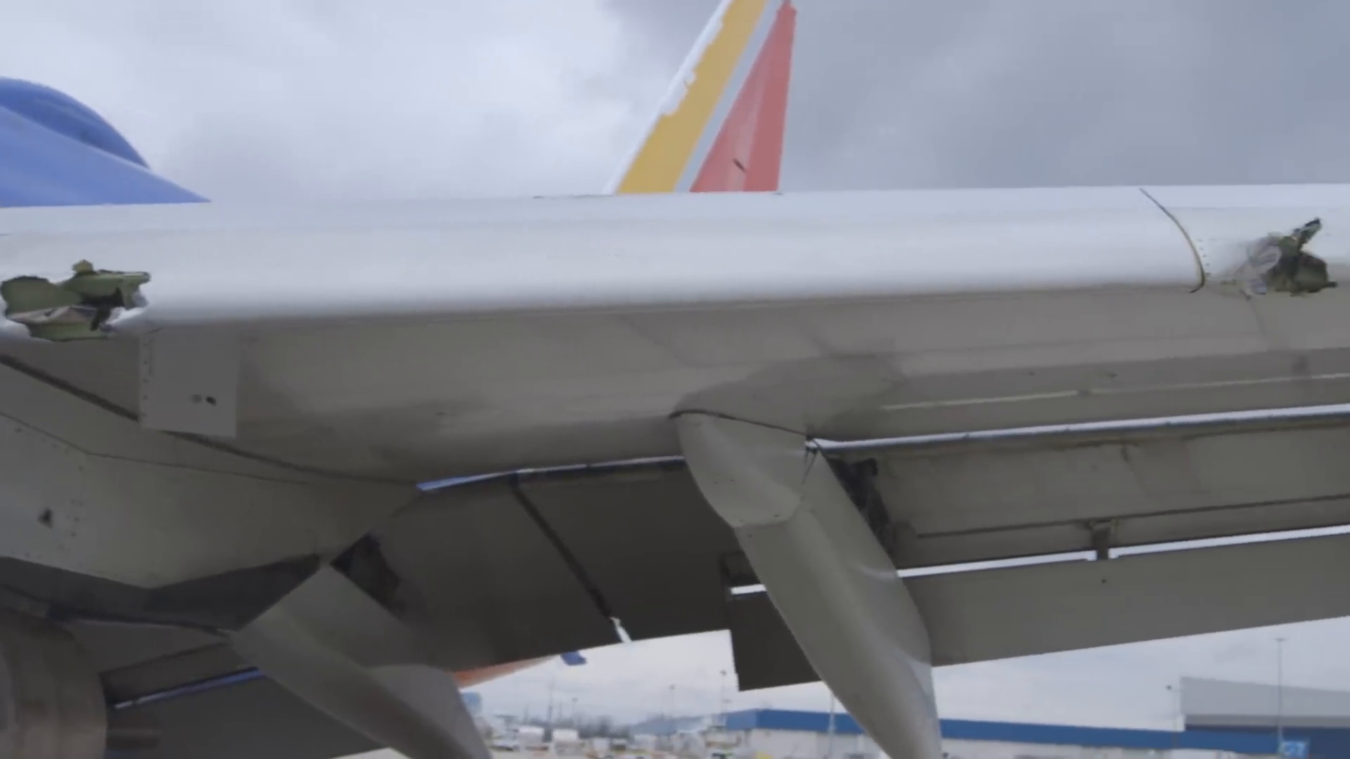 NTSB investigators conducting a preliminary walkthrough of Southwest Airlines flight 1380 in Philadelphia, PA PHL N772SW Screengrab from video